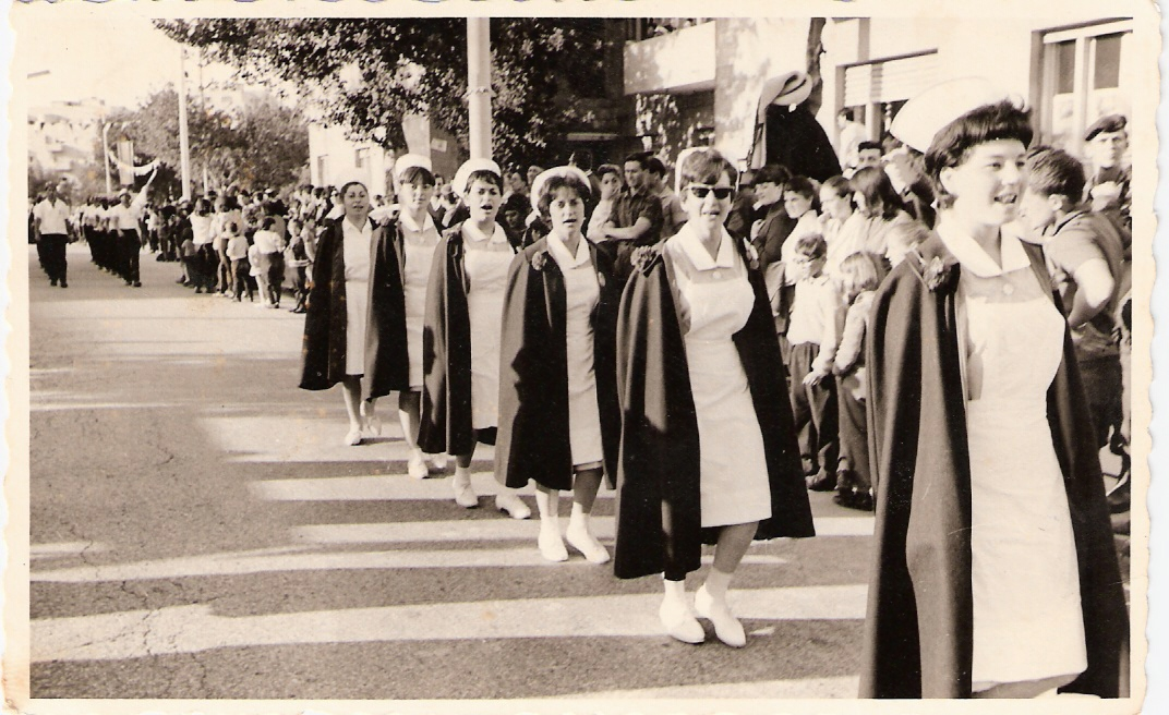 parade in jerusalem